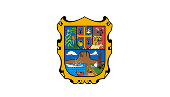 Flag of the State of Tamaulipas, Mexico.